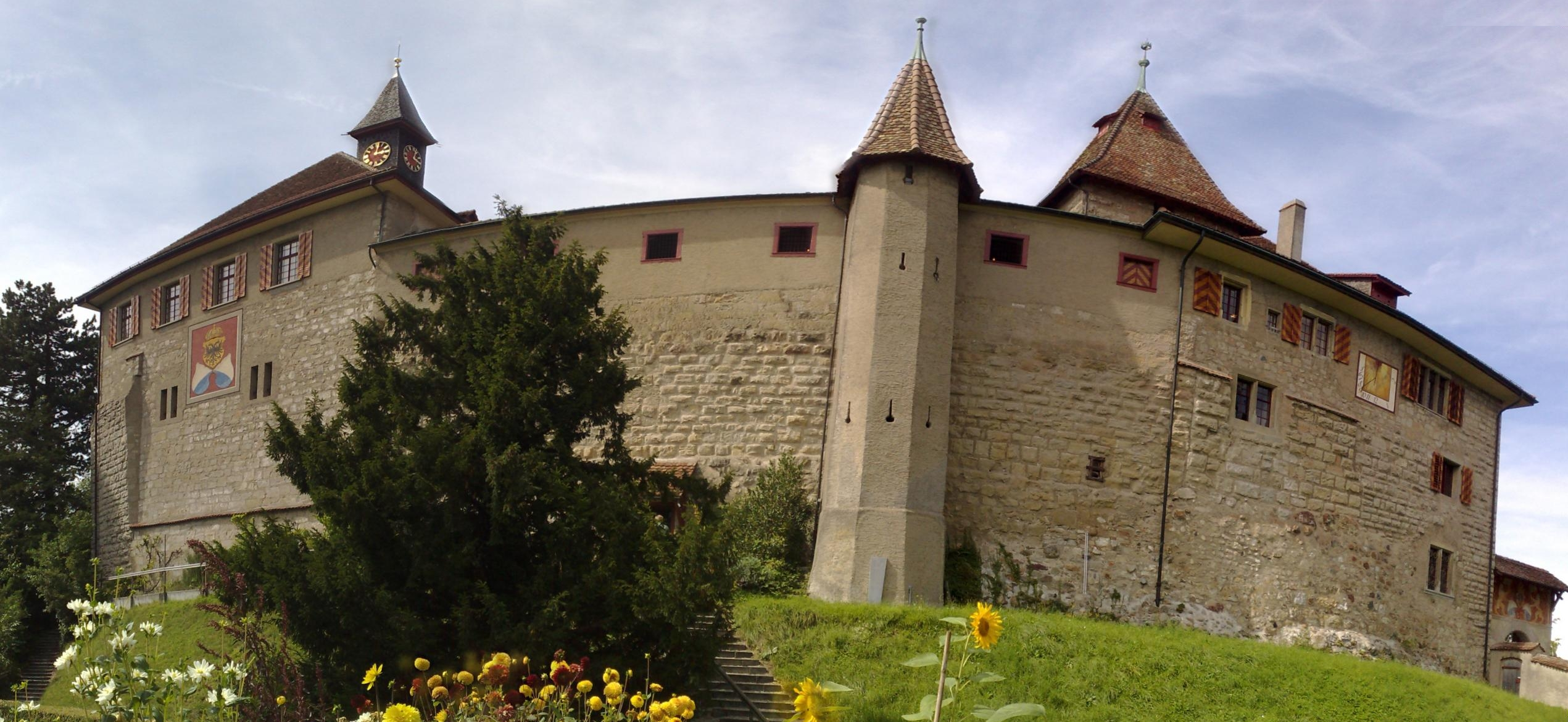 Panoramic view of the Castle of Kyburg in Kyburg, Zurich, Switzerland.